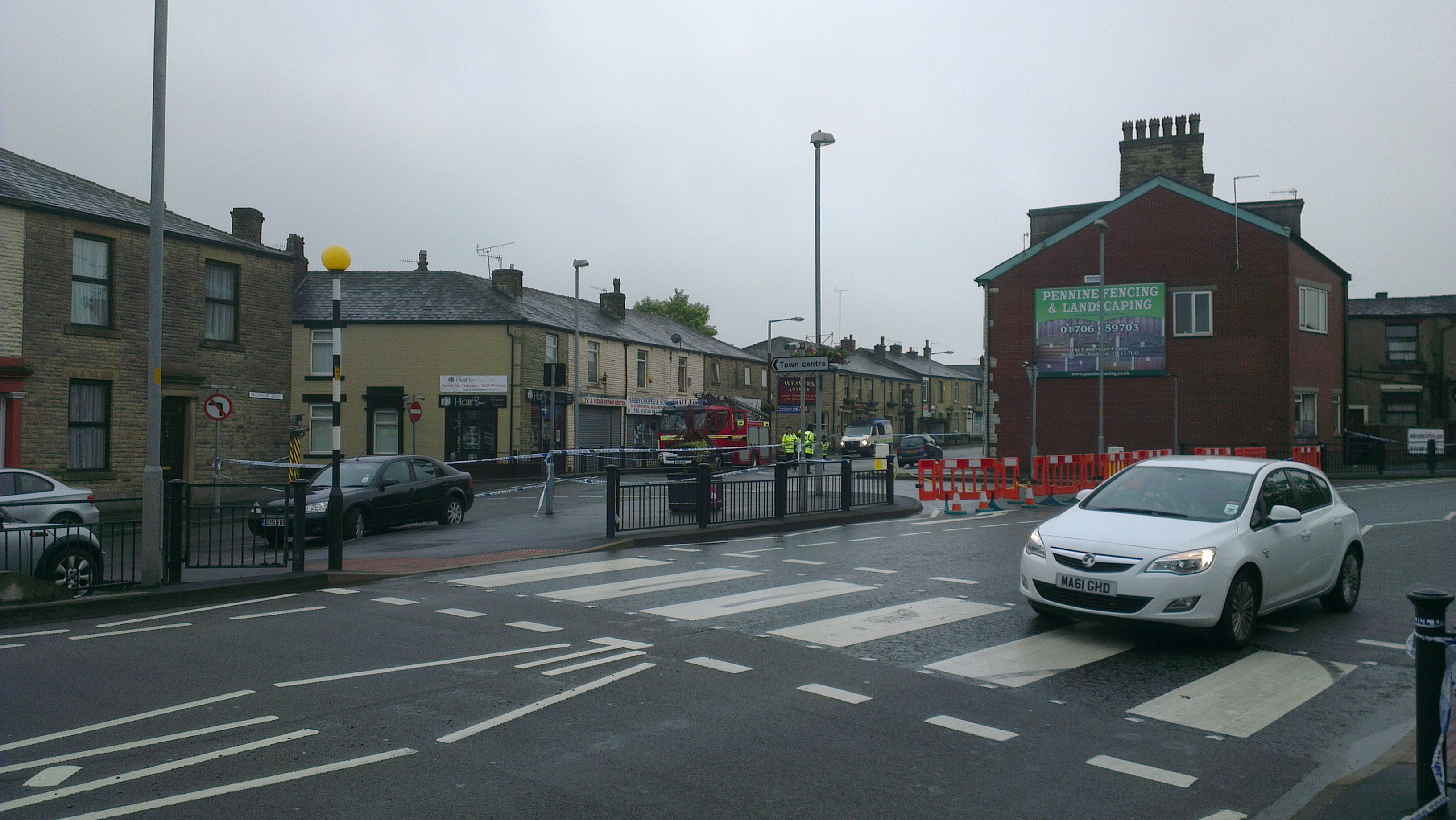 Image taken at junction of Crompton Way and Milnrow Road.